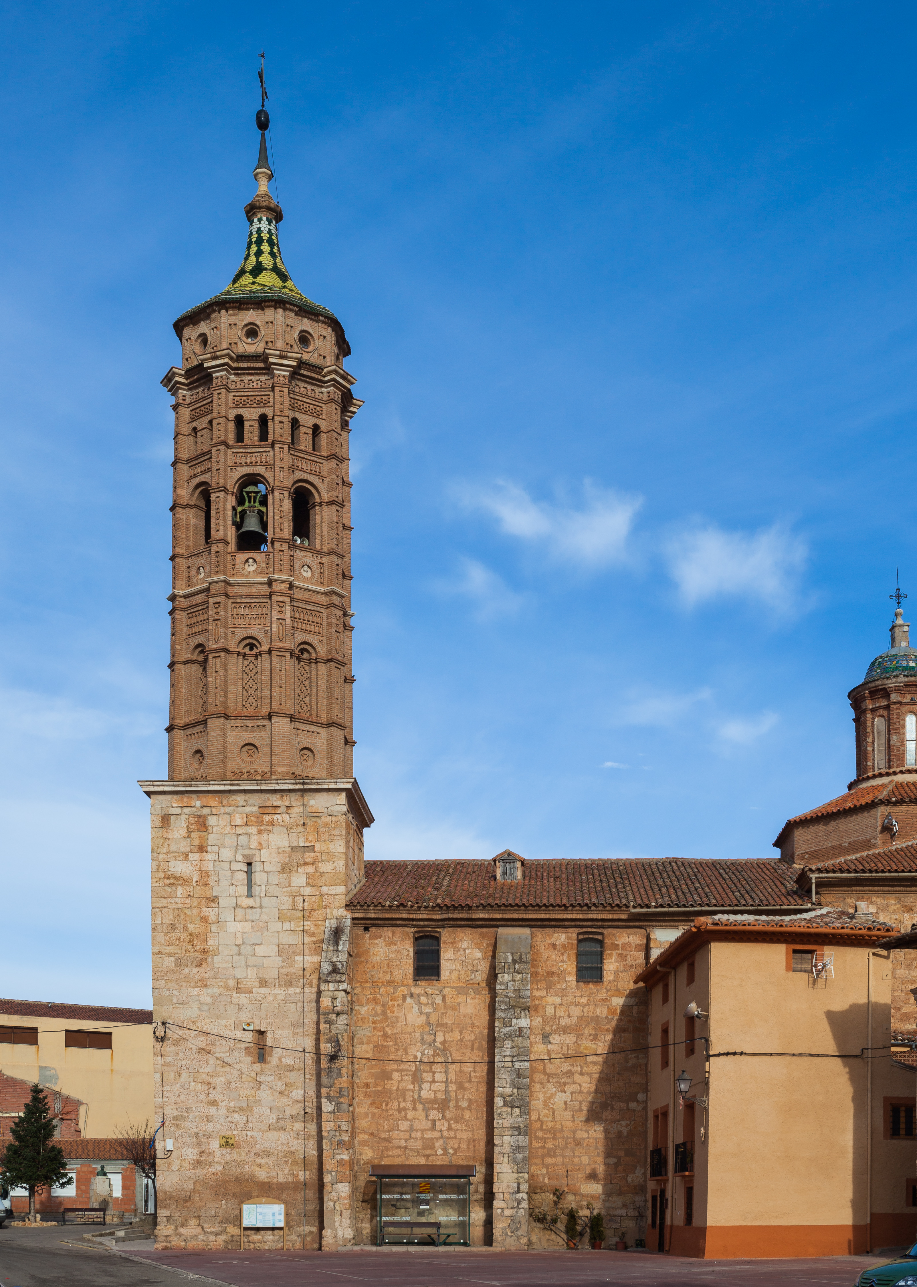 Church of the Ascension, Báguena, Teruel, Spain